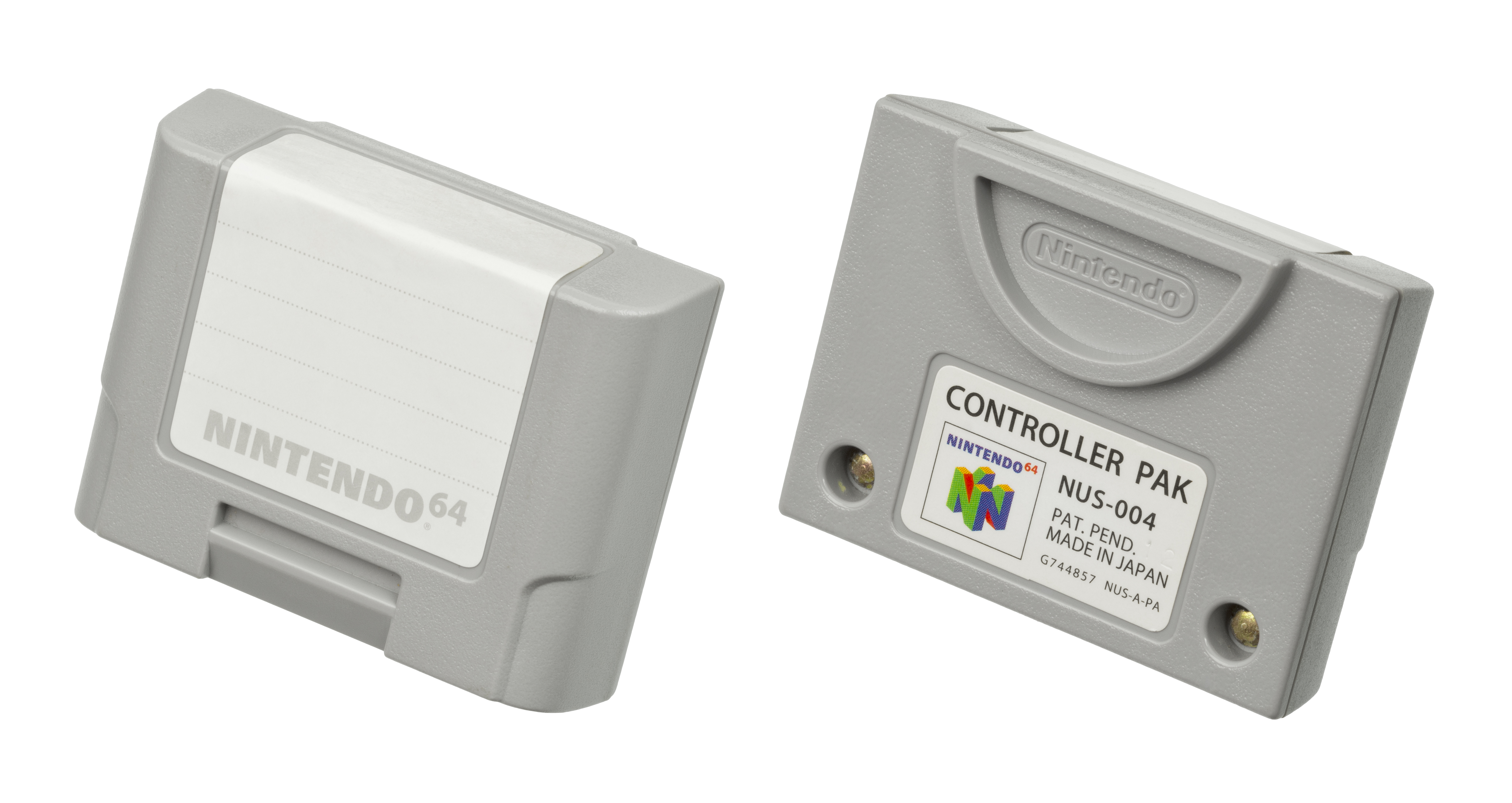 A Nintendo 64 Controller Pak, a memory card for the Nintendo 64 video game console that slotted into the controller.